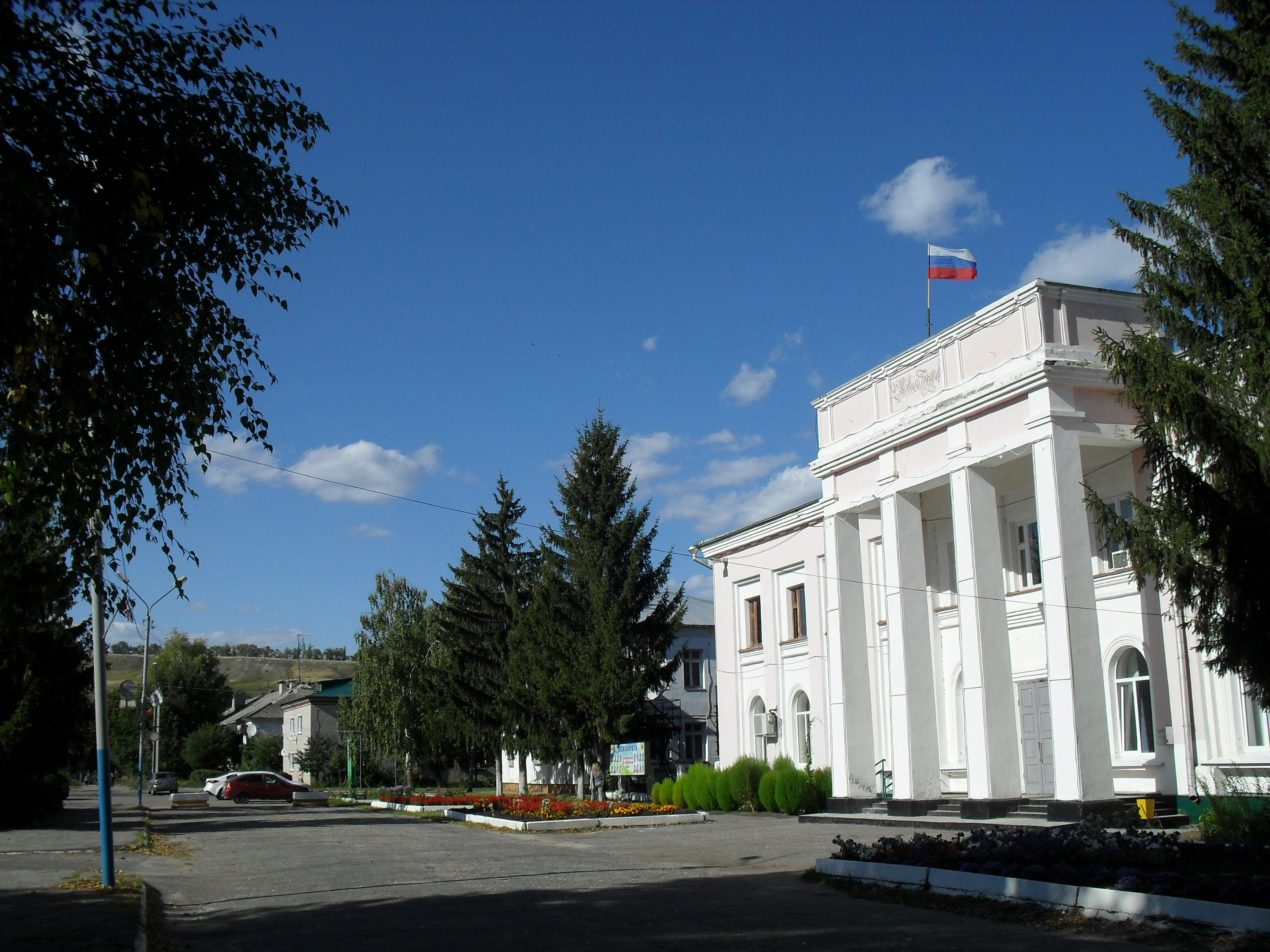 Sengiley rayon administration